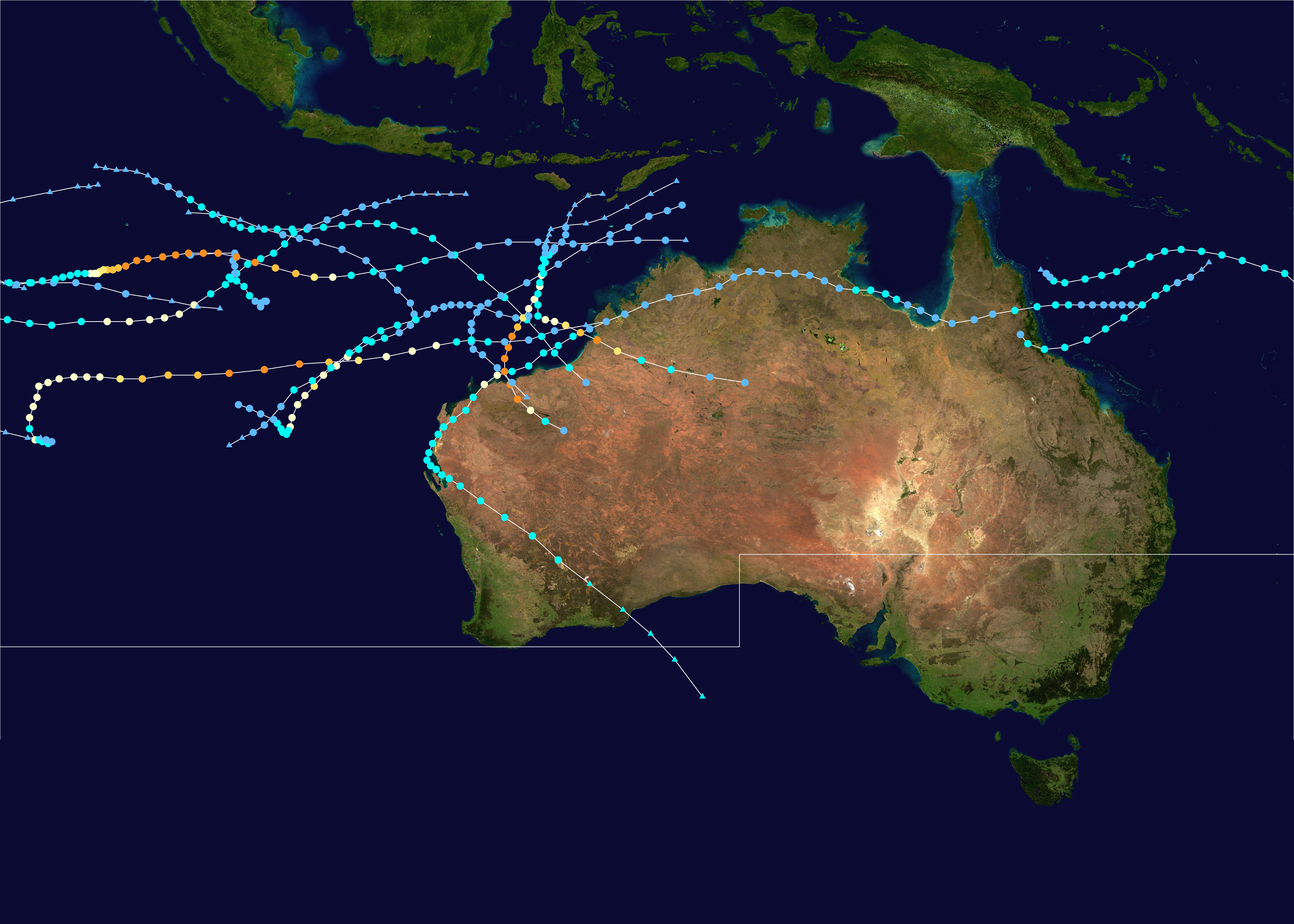 This map shows the tracks of all tropical cyclones in the 1999-2000 Australian region cyclone season. The points show the location of each storm at 6-hour intervals. The colour represents the storm's maximum sustained wind speeds as classified in the Saffir-Simpson Hurricane Scale (see below), and the shape of the data points represent the type of the storm. Saffir–Simpson scale Tropical depression≤38 mph≤62 km/h Category 3111–129 mph178–208 km/h Tropical storm39–73 mph63–118 km/h Category 4130–156 mph209–251 km/h Category 174–95 mph119–153 km/h Category 5≥157 mph≥252 km/h Category 296–110 mph154–177 km/h Unknown Storm type Tropical cyclone Subtropical cyclone Extratropical cyclone / Remnant low / Tropical disturbance